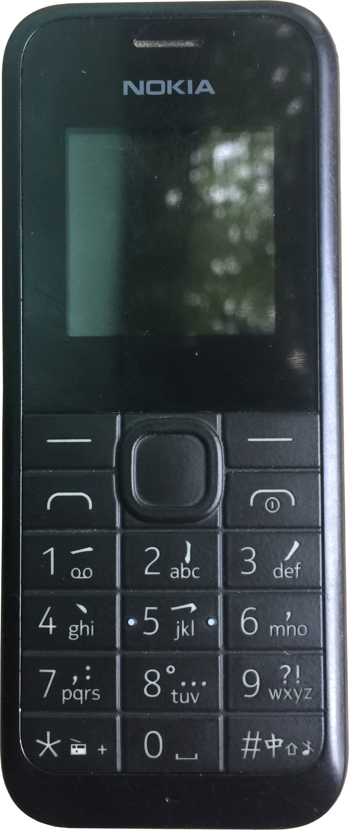 Nokia 105 version 2017